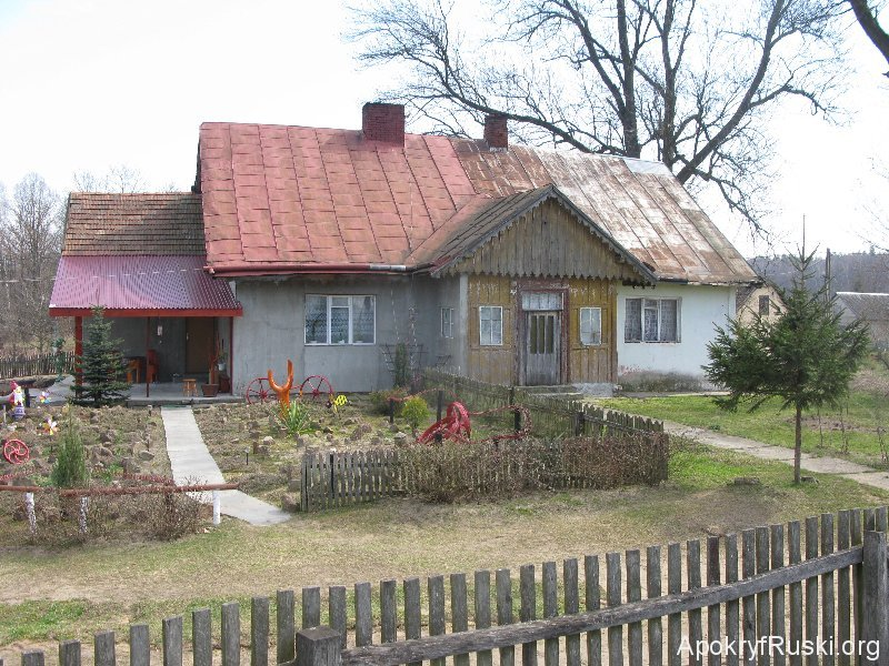 Zaleska Wola - plebanja